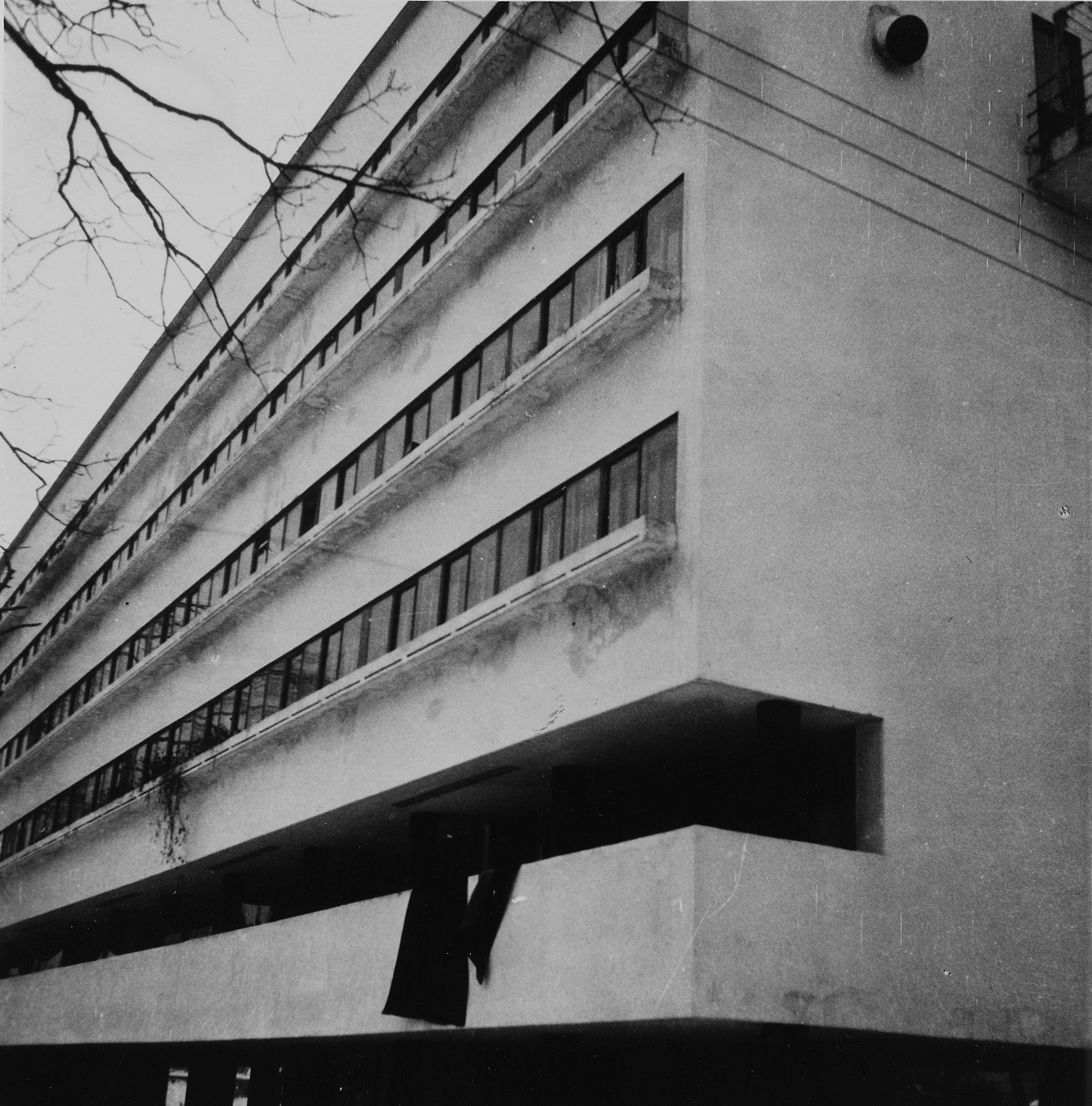 Robert Byron Narkomfin apartments Moscow, USSR Architects: Moisei Ginzburg and Ignatii Milinis (1928-1929) Type: A-negative Exterior view, front facade, detail